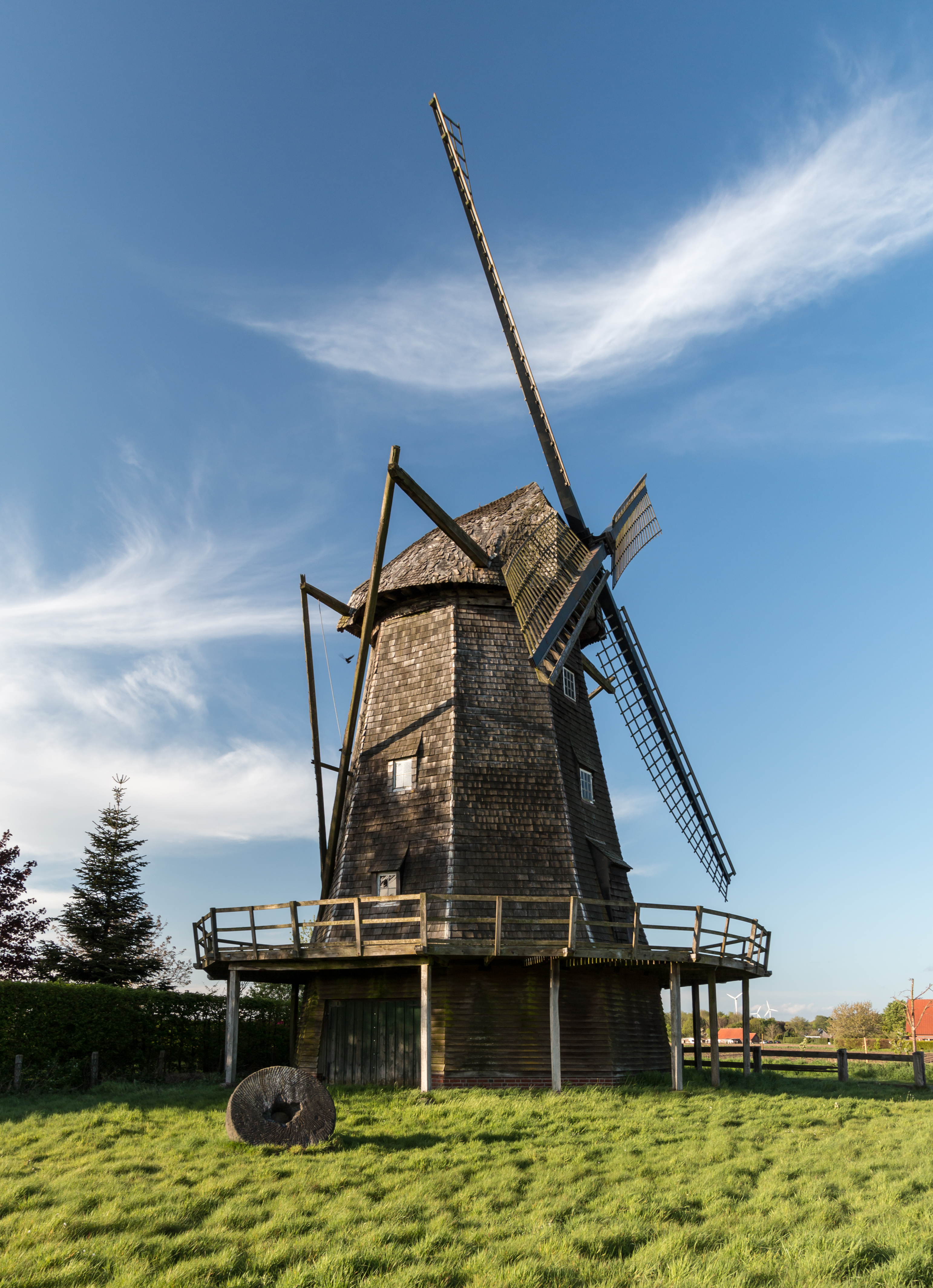 Windmill in Lette, Coesfeld, North Rhine-Westphalia, Germany